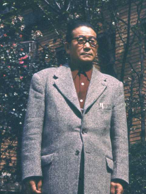 Kamesuke Hiraga in Japan (1955)